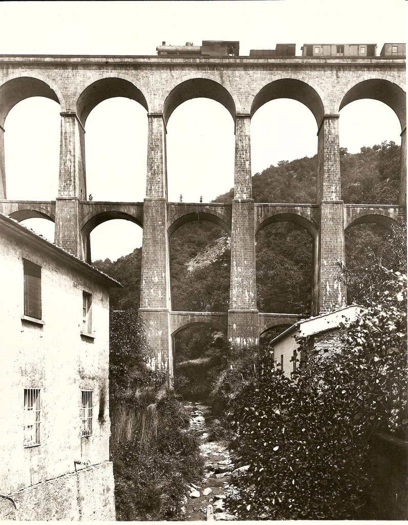 Porrettana Railways Piteccio's Bridge, first years of 1900, Alinari Brothers